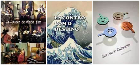 Photograph of a painting with the consent of the author. Painted in 1997.